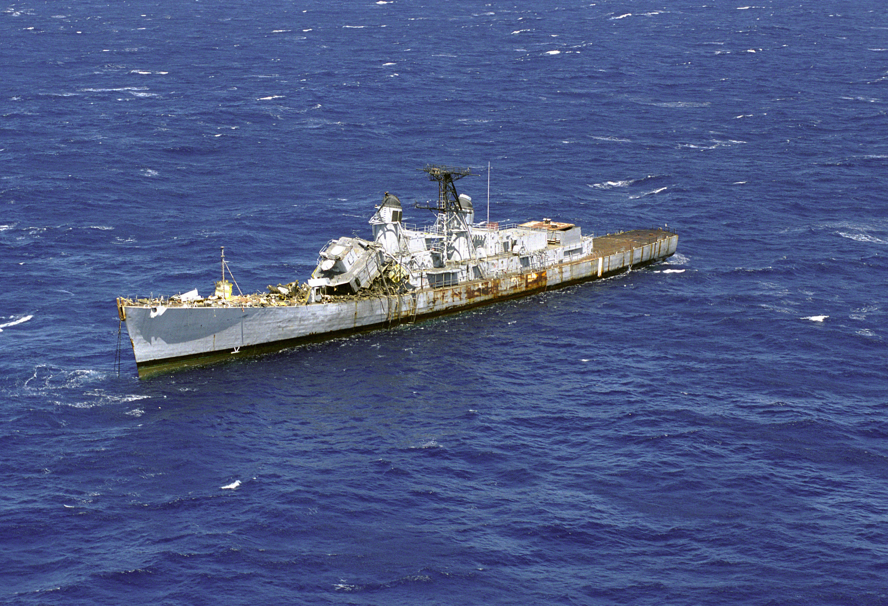 The last day of the Forrest Sherman Class destroyer ex-USS HULL (DD 945). The HULL was decommissioned on July 11, 1983, stricken from the Navy vessel list on October 15, 1983 and sunk on April 7, 1988, serving as an at-sea target for a naval gunnery exercise off the southern California coast.